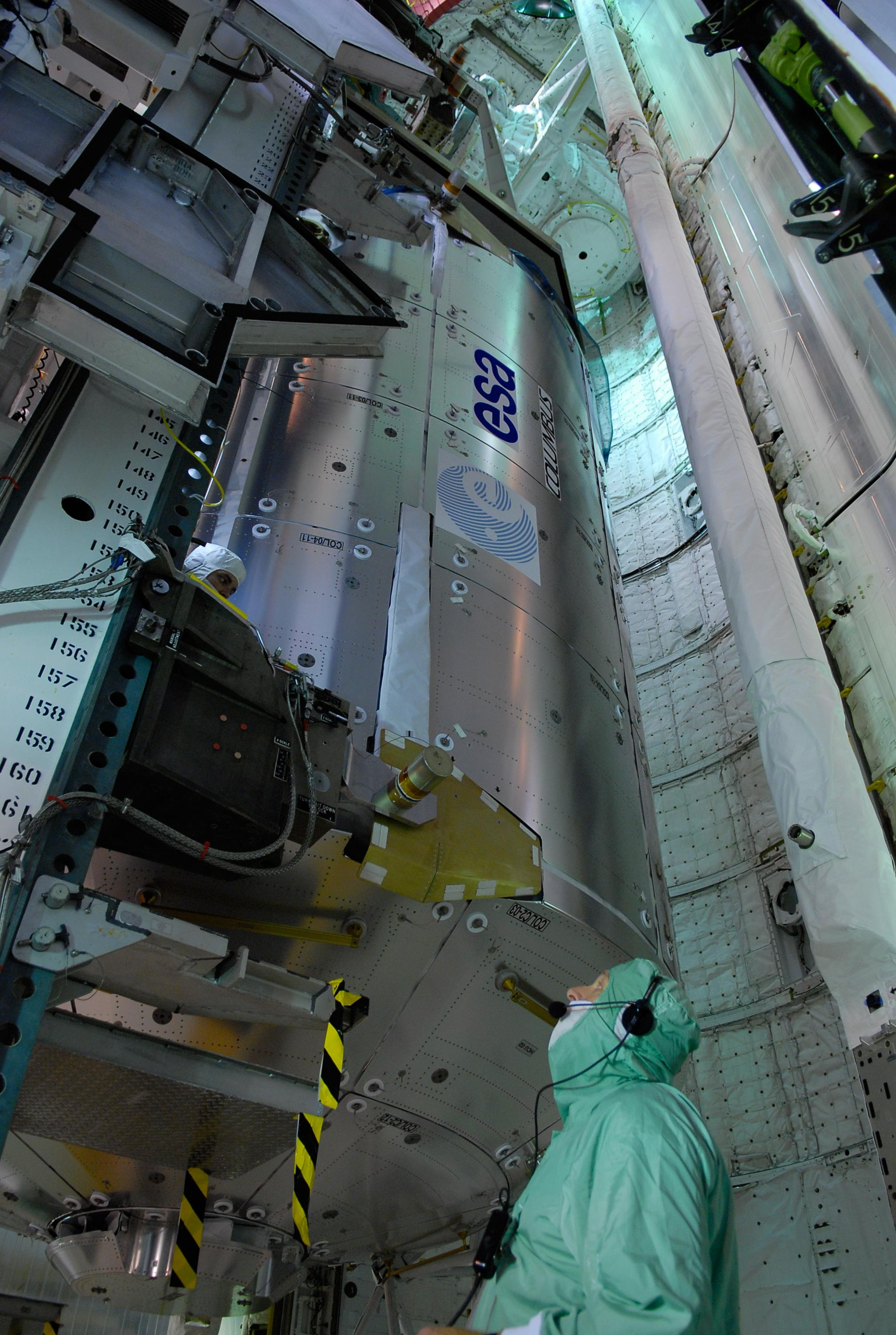 Kennedy Space Centre, Florida - A technician watches as the European-built Columbus laboratory is moved into the payload bay of the Space Shuttle Atlantis. Columbus will be attached to the International Space Station during the STS-122 mission to the orbital outpost, scheduled for launch on 6 December 2007. (NASA Photo ID: KSC-07PD-3293)